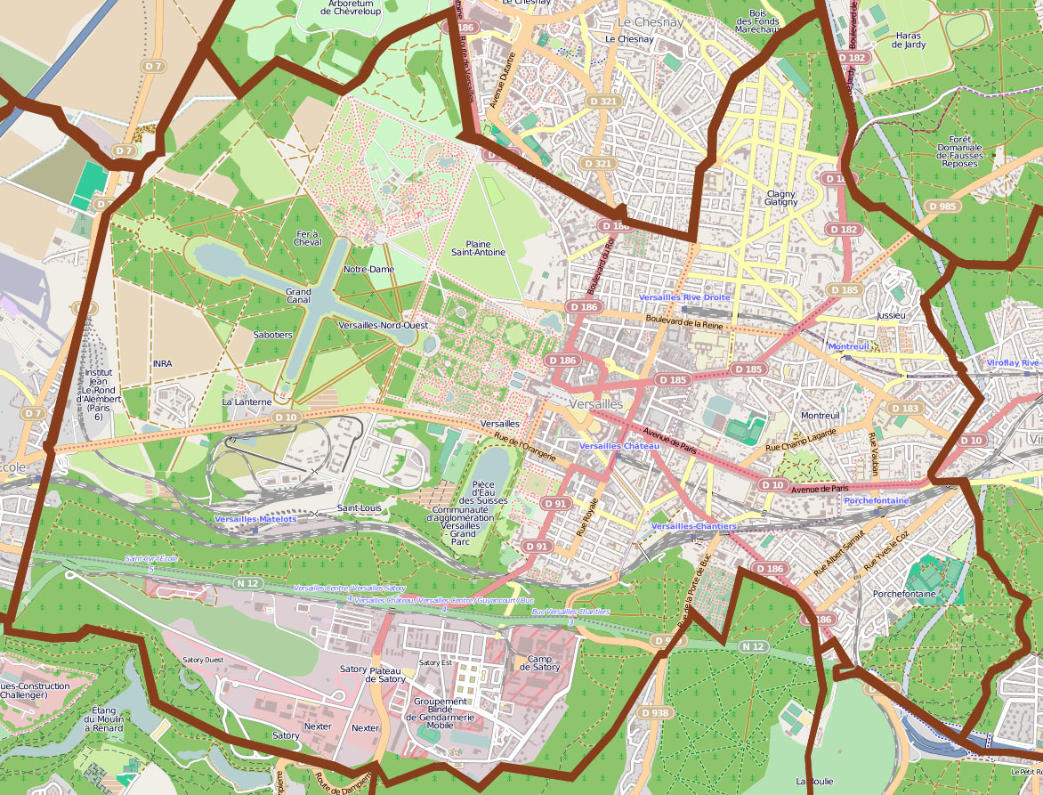 Map of the city of Versailles, France